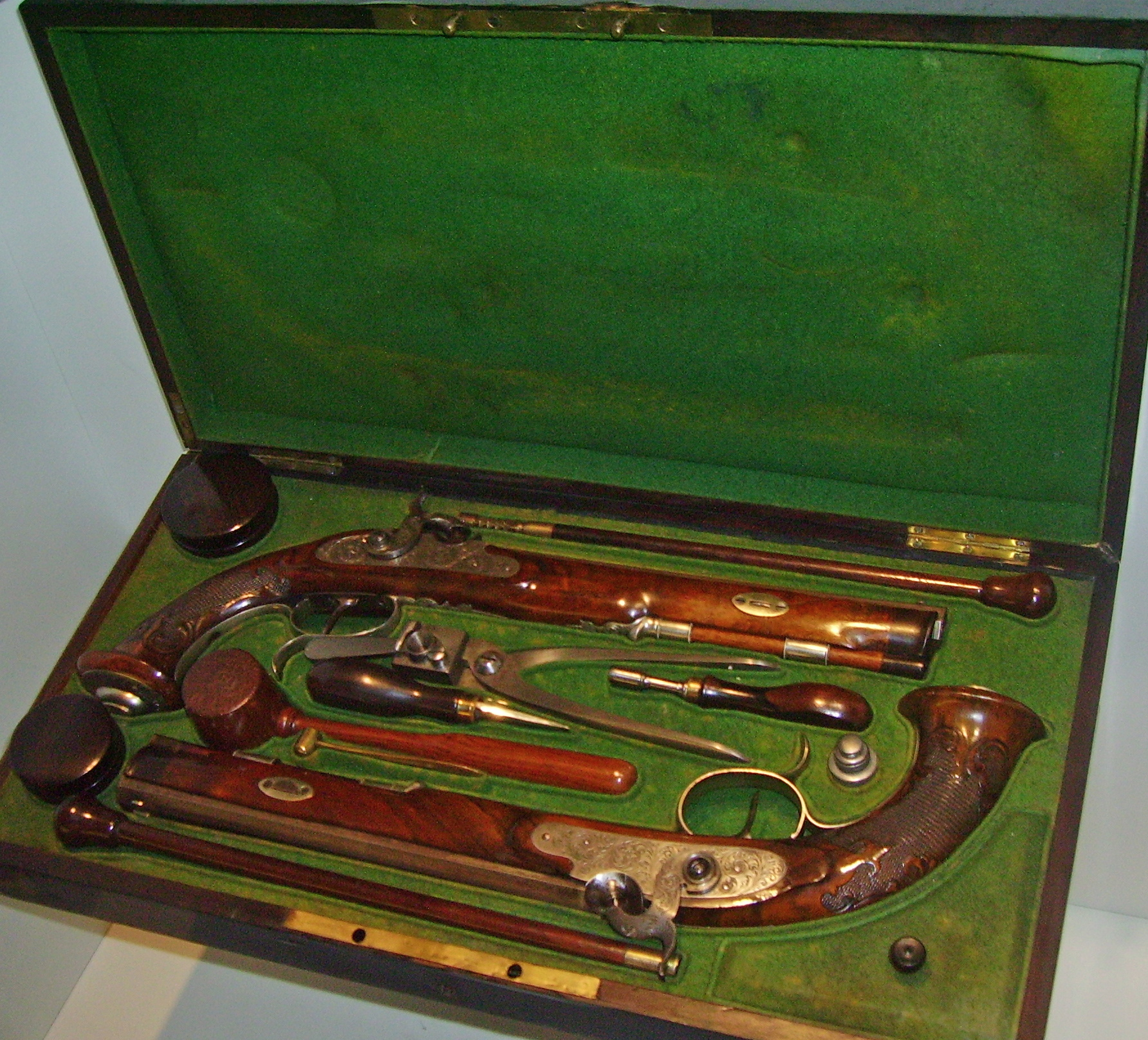 Dueling pistols